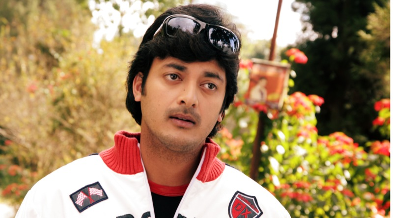 Bengali Actor Jishu Sengupta